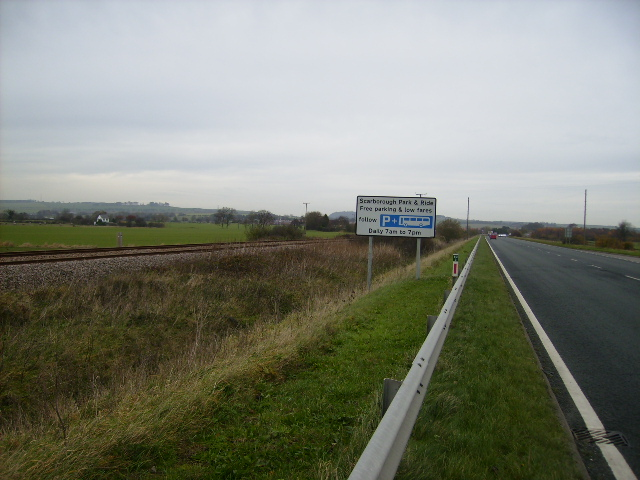 The A64 running parallel with the railway line near Seamer